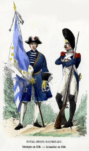 Ensign of the Régiment de Bavière in 1720 and Régiment de Royal Hesse–Darmstadt Grenadier in 1789